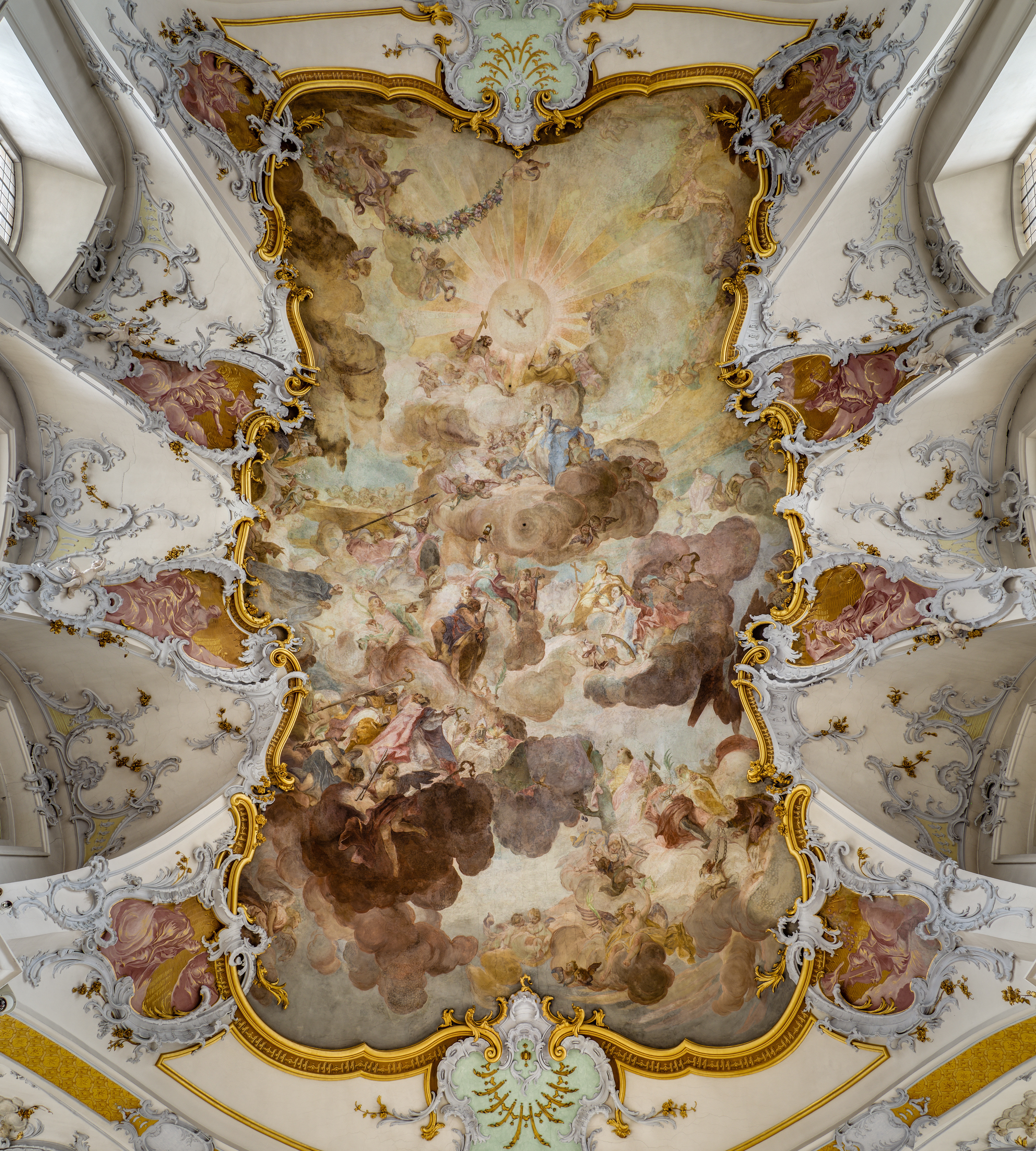 Ceiling fresco of the Basilica Vierzehnheiligen painted by Jos.Appiani (Giuseppe Appiani) 1764-69